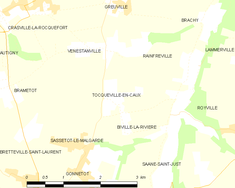 Map of French municipality Tocqueville-en-Caux